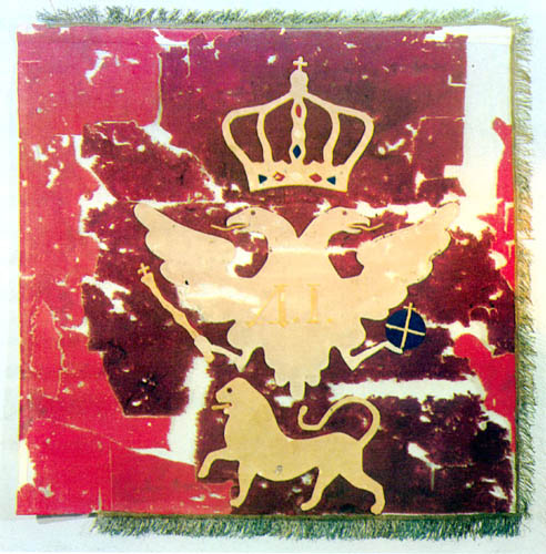 Montenegrin war flag from the Battle of Grahovac. Used also by Prince Danilo I. as the war flag.